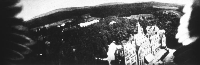 Aerial images from Julius Neubronner's camera strapped to a homing pigeon, including one with wing tips visible on the edges